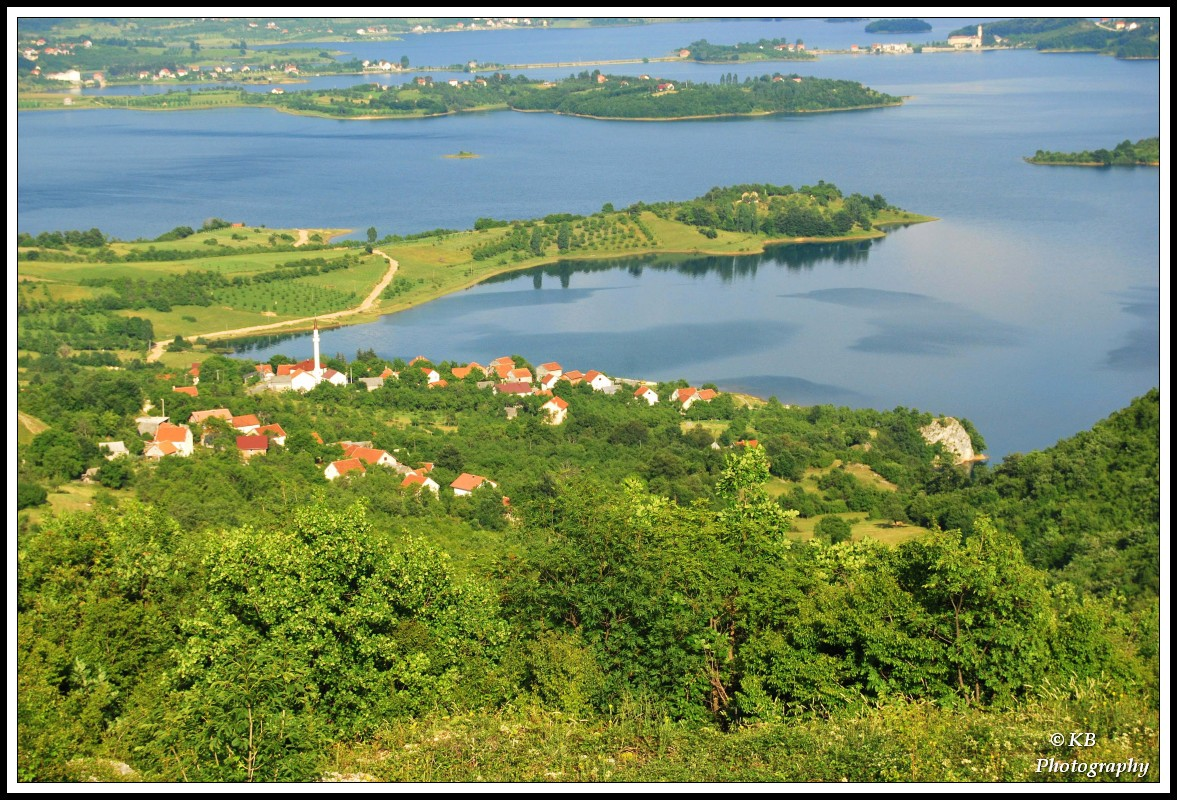 Rama lake